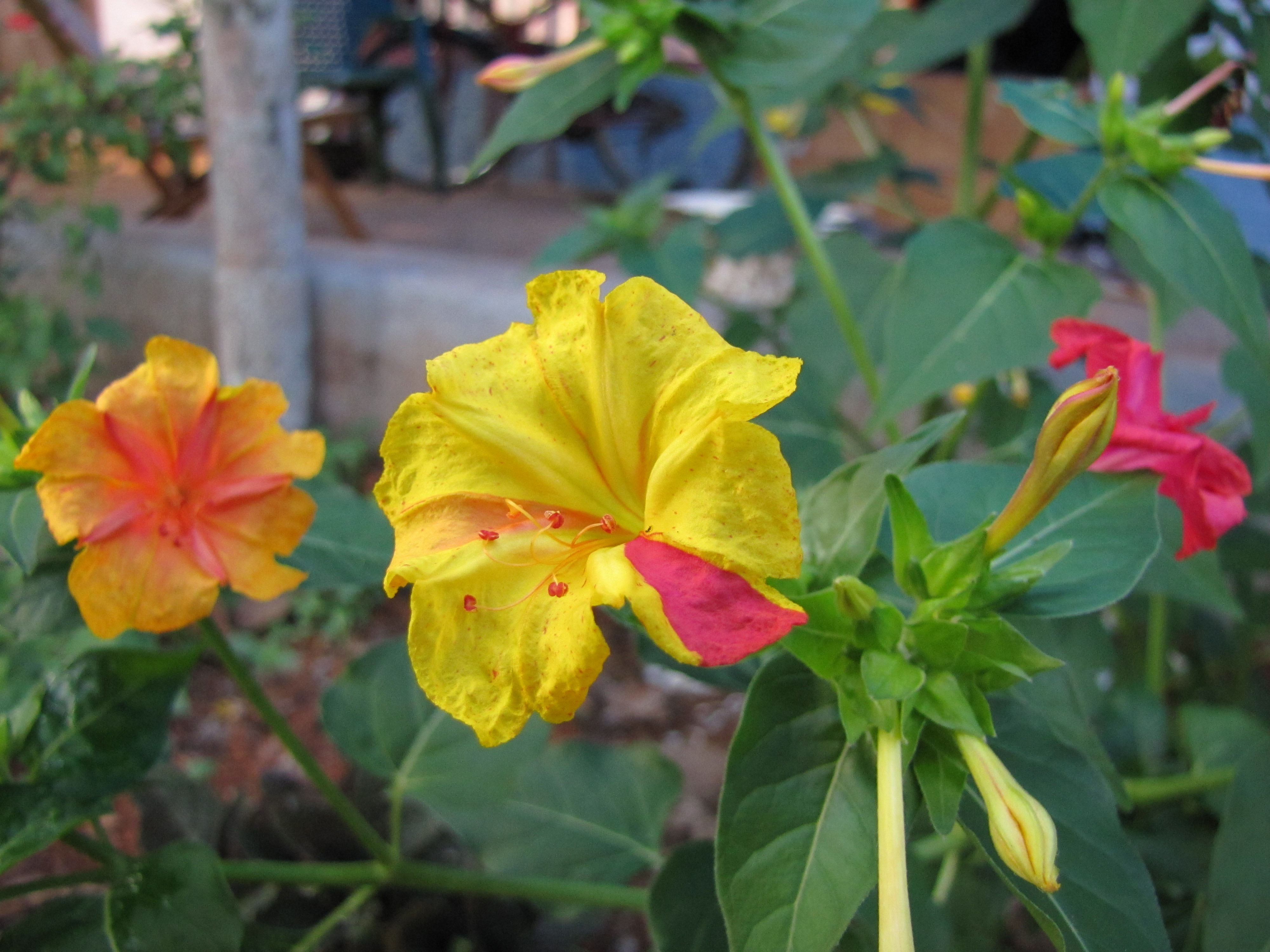 Mirabilis jalapa or Four'O Clock flower In Different Colors in same plant